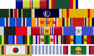 Awards and Decorations of the battleship USS Missouri (BB-63) From left to right, in order of descending rows: Combat Action Ribbon, Navy Unit Commendation Meritorious Unit Commendation, Navy "E" Ribbon with Wreathed Battle E device, China Service Medal American Campaign Medal, Asiatic-Pacific Campaign Medal with three campaign stars, World War II Victory Medal Navy Occupation Service Medal, National Defense Service Medal with service star, Korean Service Medal with silver service star (5 campaigns), Armed Forces Expeditionary Medal, Southwest Asia Service Medal with two campaign stars, Sea Service Deployment Ribbon with two service stars Republic of Korea Presidential Unit Citation, United Nations Service Medal, and Liberation of Kuwait Medal. This is based the former awards page of the website (accessed through the internet archive); however, no photograph material from that page was used to create this version. This image was created by me using the various ribbons uploaded to wikipedia from the User:Husnock; to the best of my knowlage, all the ribbons are in the public domain.